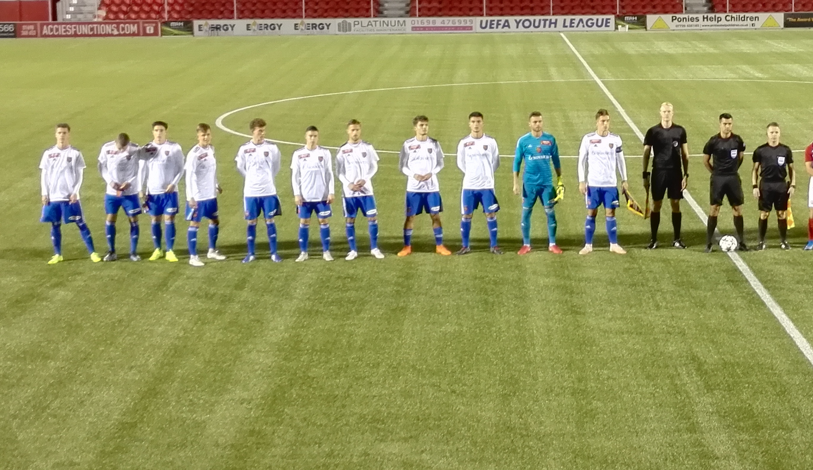 Hamilton Academical and FC Basel under 19 teams line up prior to their UEFA Youth League match, 2018